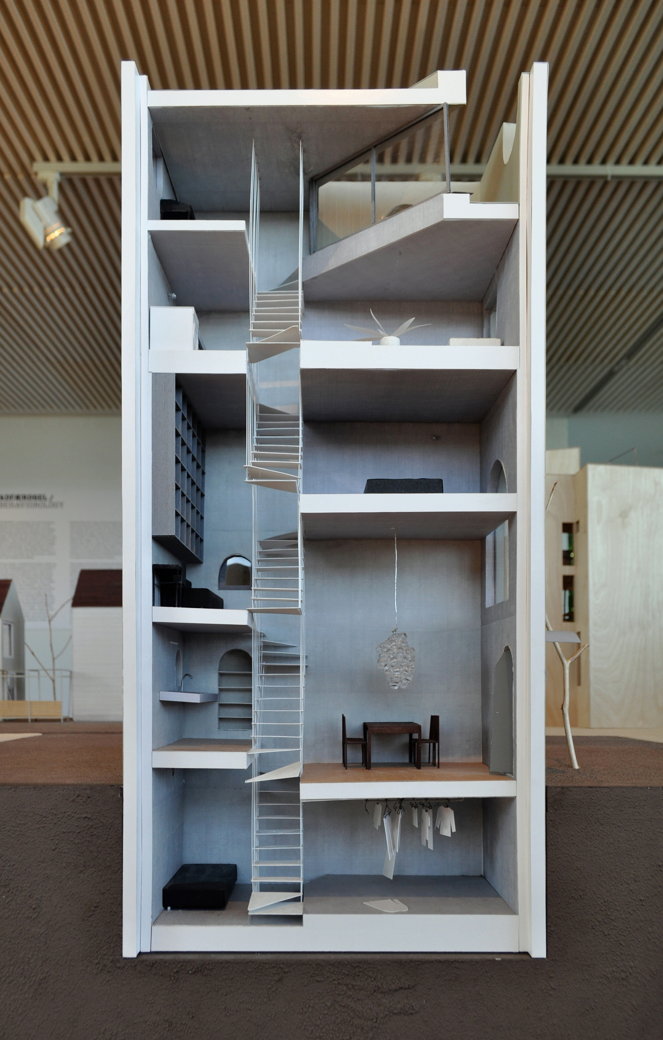 'house tower' model, tokyo 2006 from the recent exhibition at the louisiana museum, architects: atelier bow-wow, yoshiharu tsukamoto and momoyo kaijima, tokyo. we need to compare the four boxes gallery to atelier bow-wow's Japanese work. this sectional model of the 'house tower' shows their predilection for open, split-level floors. you can find a related reaction to what we might call a european or western architecture of enclosed, discrete spaces in the very different buildings of kengo kuma. the 'house tower' has a footprint of just 18 square meters, one example of the extreme demands made on buildings in tokyo and documented so beautifully in the books and projects of atelier bow-wow. an open staircase connecting so many floors had never been allowed in copenhagen, by the way. this photo was uploaded with a CC license and may be used free of charge and in any way you see fit. if possible, please name photographer "SEIER+SEIER". if not, don't. note